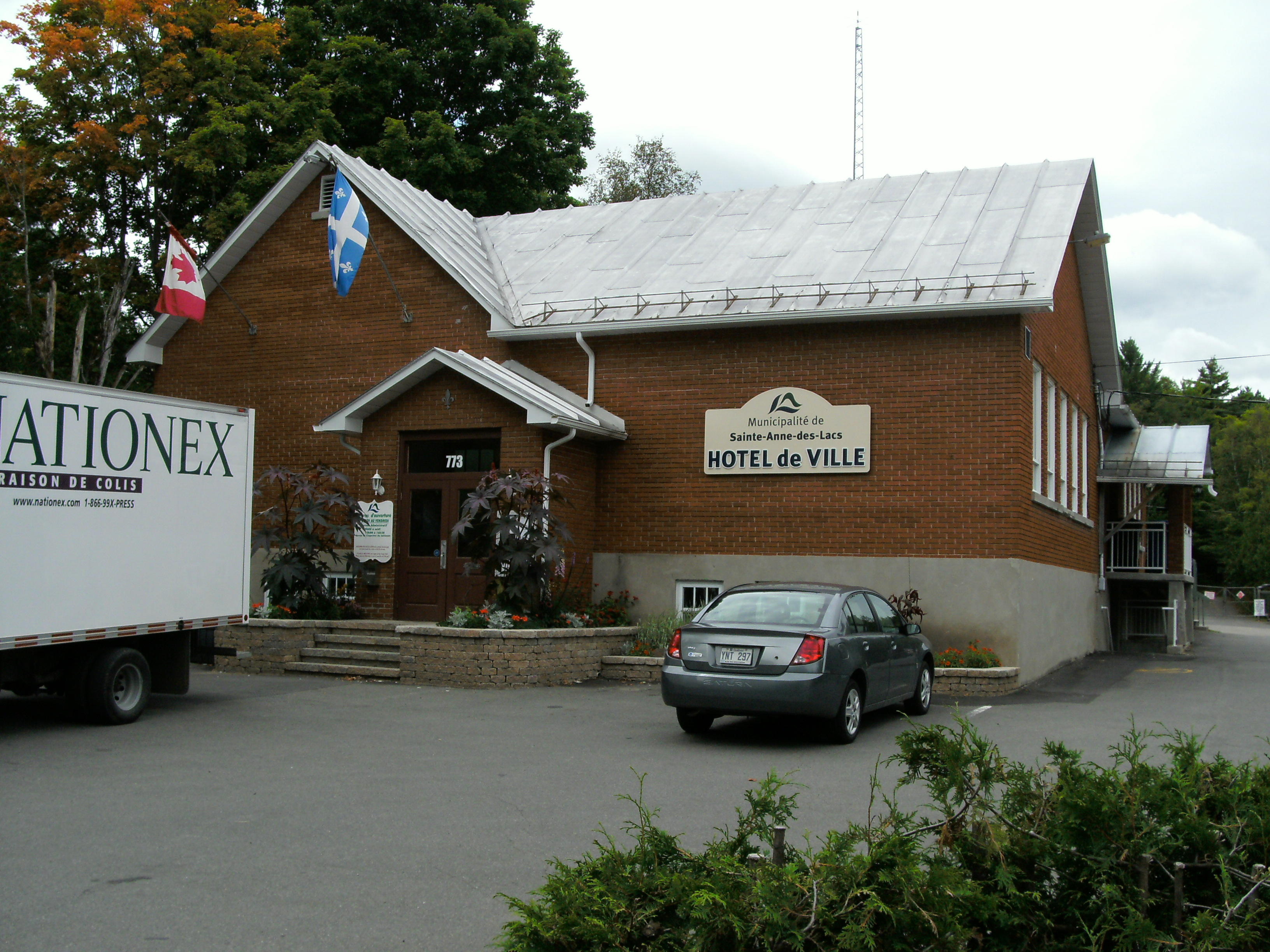 Town Hall, Sainte-Anne-des-Lacs, Québec, Canada